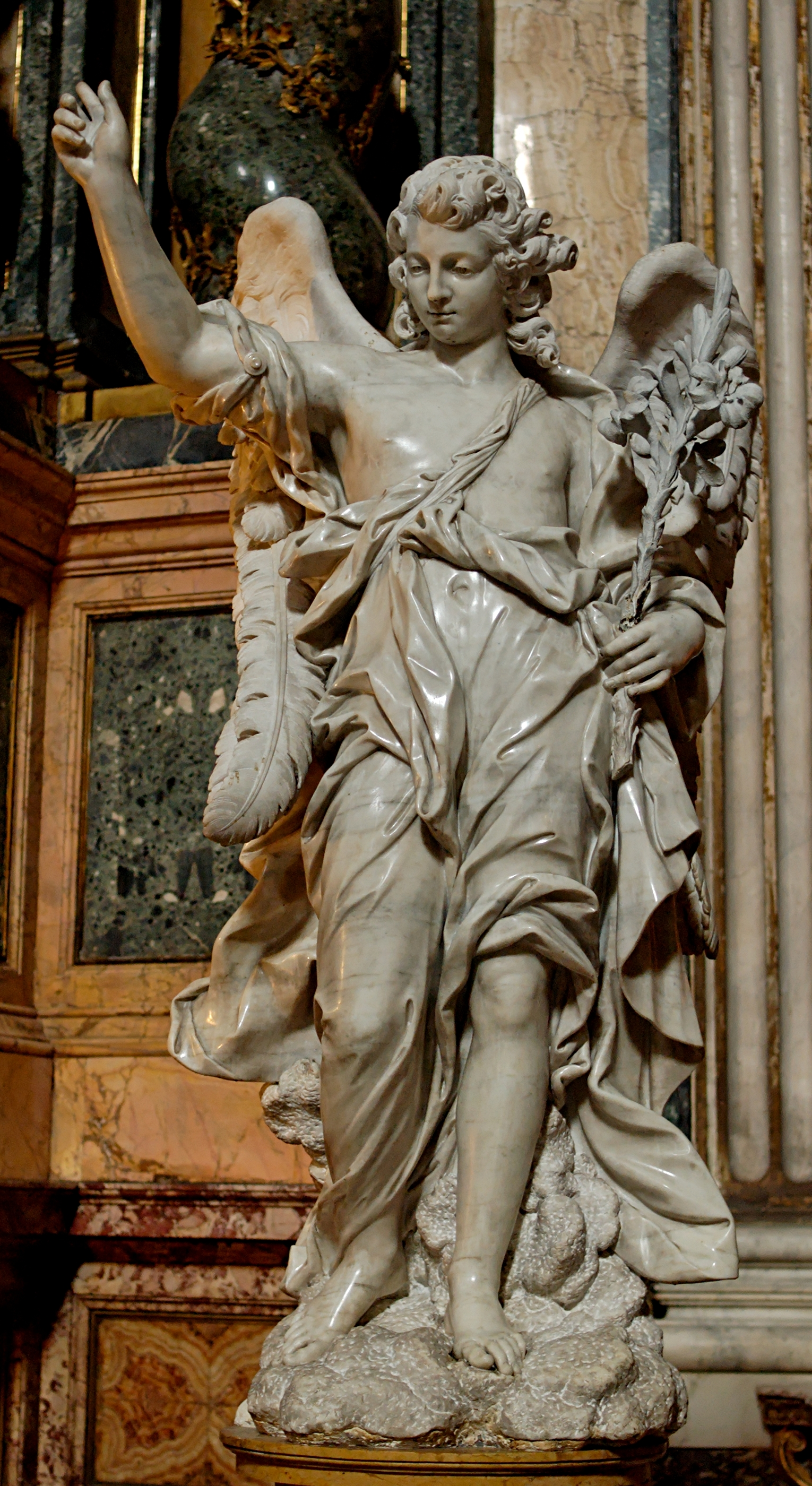 Statue of an angel from the altar of St Aloysius Gonzaga, Sant'Ignazio, Rome, Italy